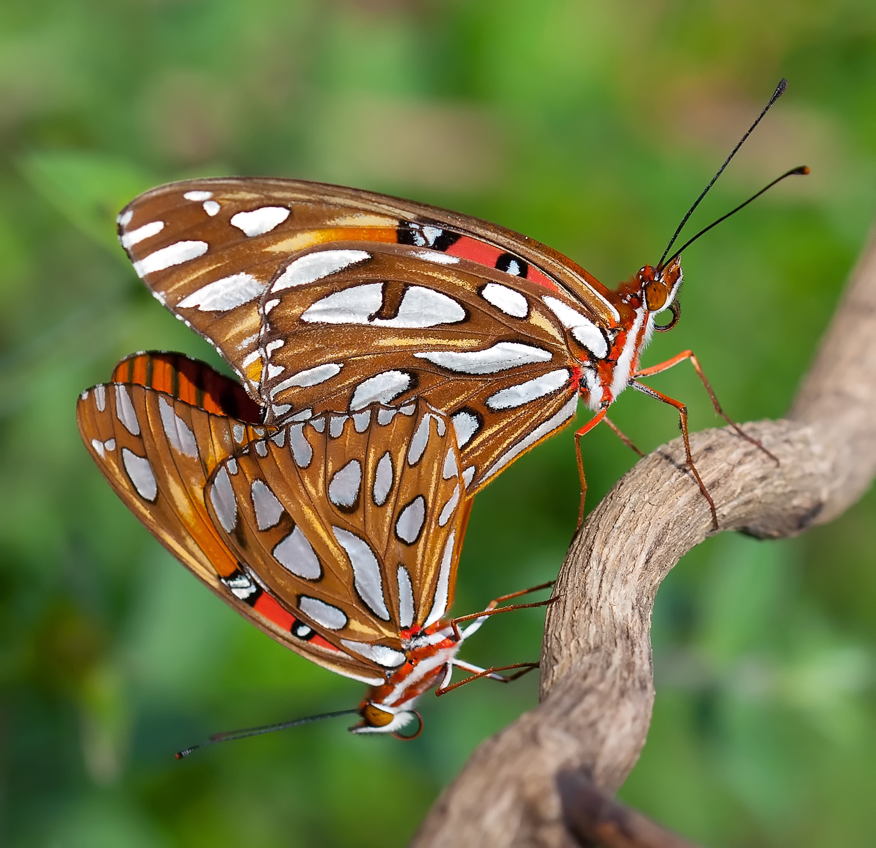 Gulf Fritillaries Mating